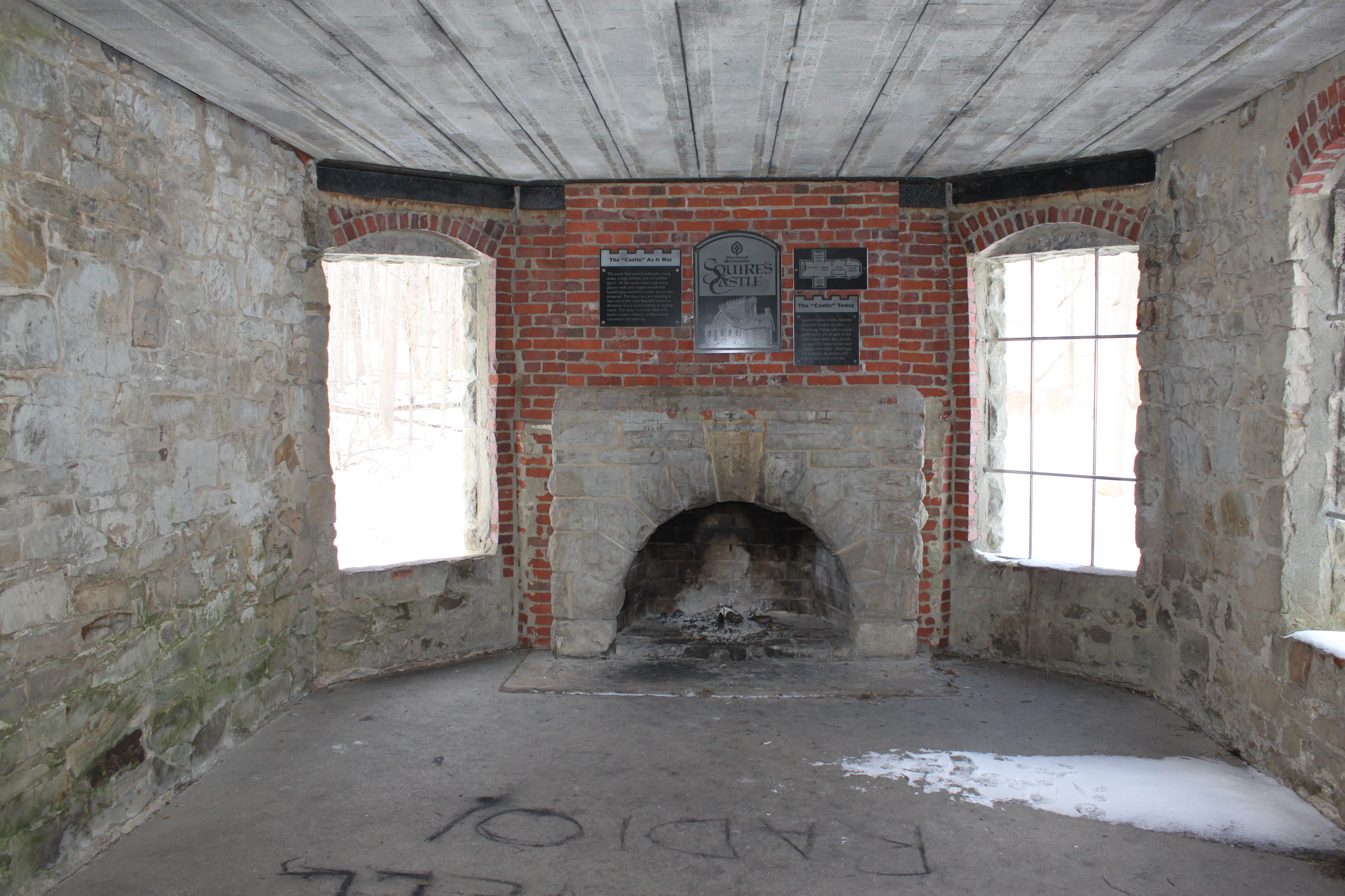 chimenea del castillo